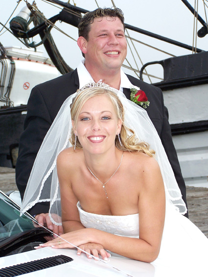 A couple, identified only as Org and Valmerie, getting married at Velddrif in 2007.